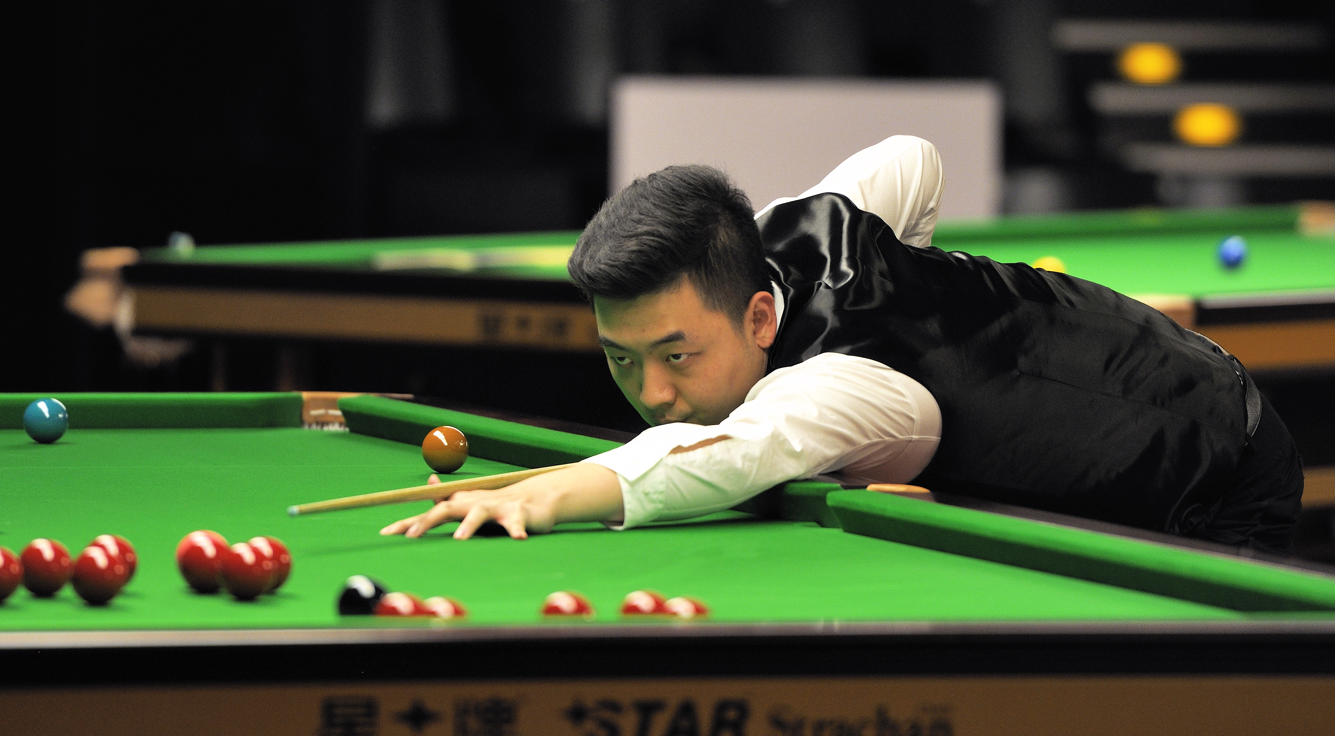 Picture taken in Berlin during the Snooker German Masters in 2014. Tian Pengfei.